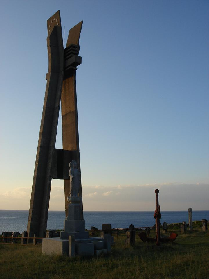 Cape Intabu